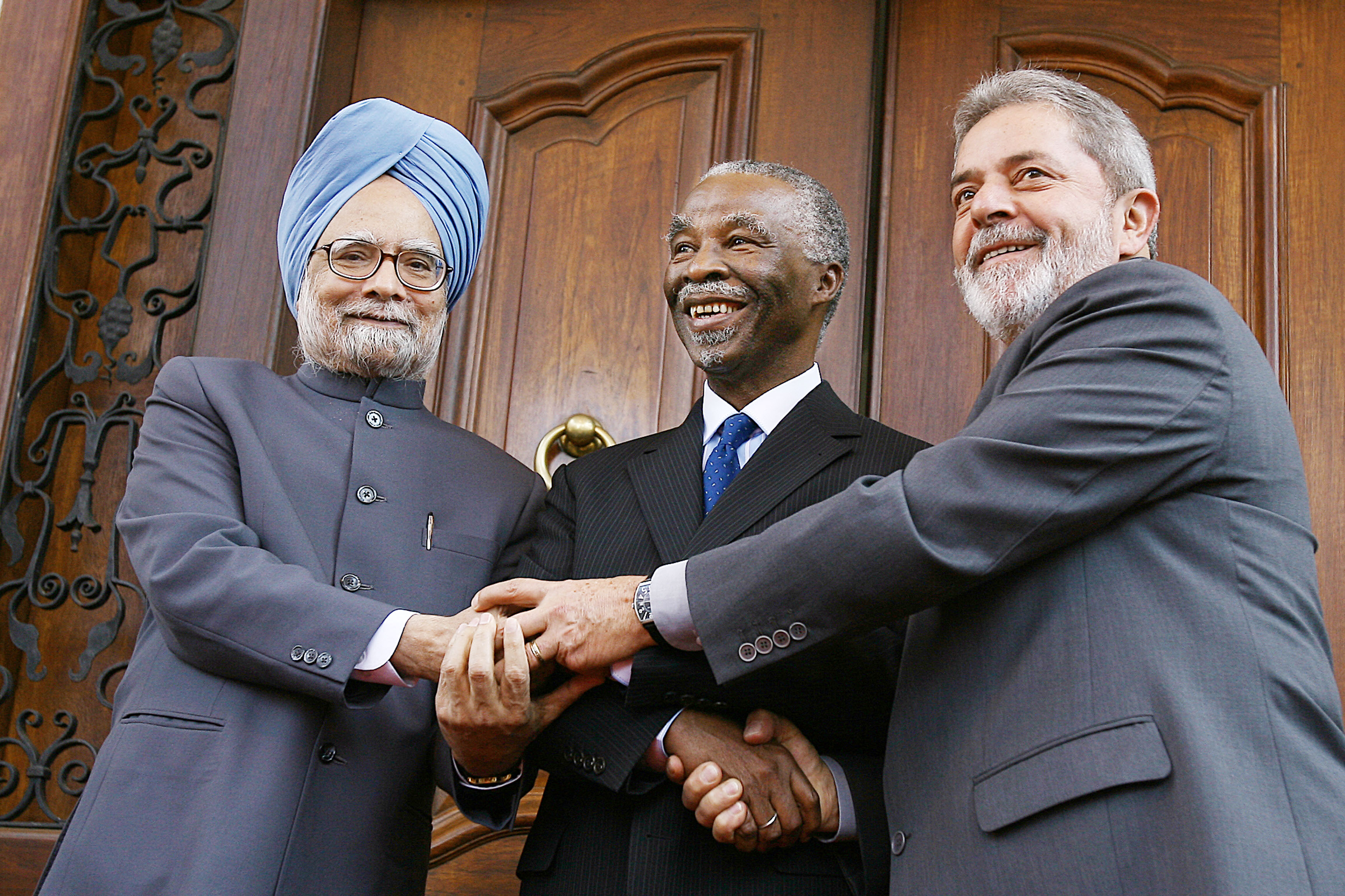 Pretoria (South Africa) - Brazilian President Luiz Inacio Lula da Silva (right), Prime Minister of India, Manmohan Singh (left), and the president of South Africa, Thabo Mbeki (center) pose for photographers during a meeting of IBSA. Photo Ricardo Stuckert / PR